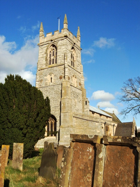 Parish church of St John the Baptist, South Collingham, Nottinghamshire, seen from the west